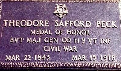 Grave marker of Medal of Honor recipient, Theodore Safford Peck.